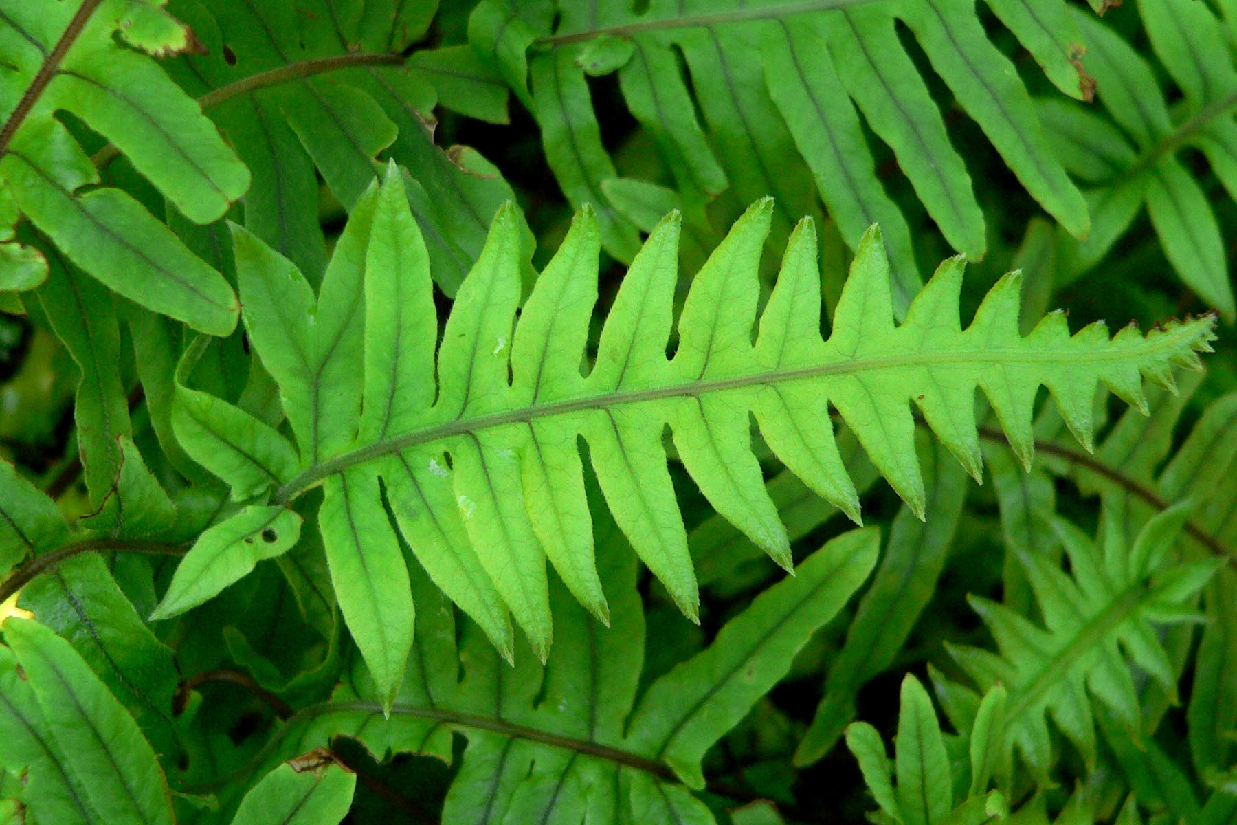 Photo of Polypodium formosanum 'Cristatum' at Balboa Park